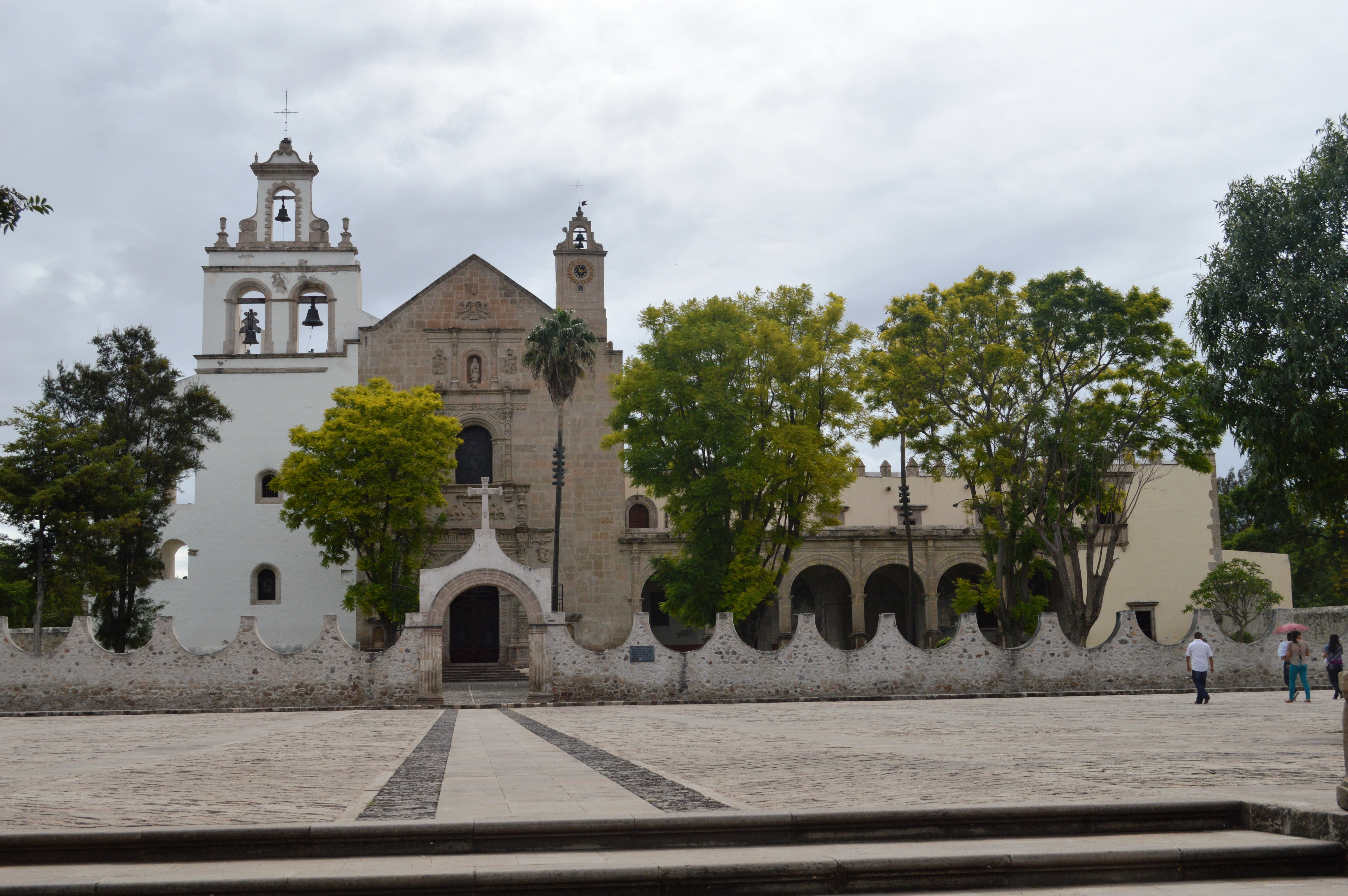 View of the church and former monastery of Santa Maria Magdalena in Cuitzeo, Michoacán